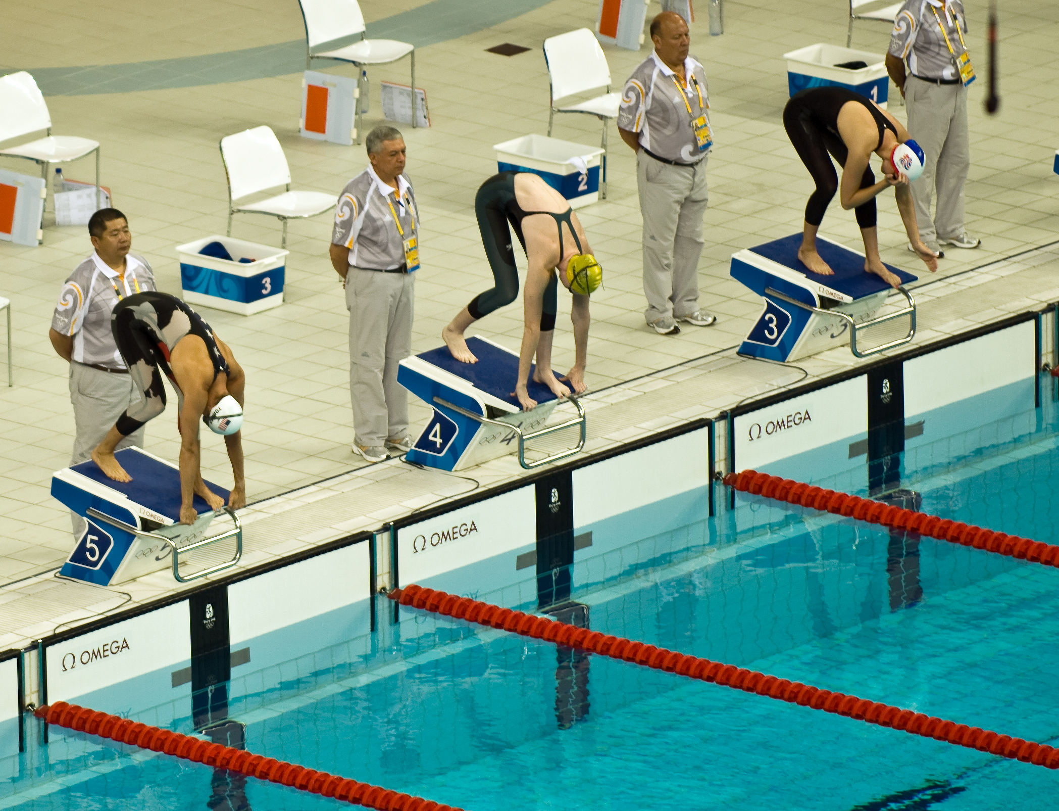 Swimming at the 2008 Beijing Summer Games: Women's 50 metres Freestyle Round One - Heat 10 Dara Torres (USA) on the left in lane 5, Cate Campbell (AUS) in lane 4, Francesca Halsall (GBR) on the right in lane 3